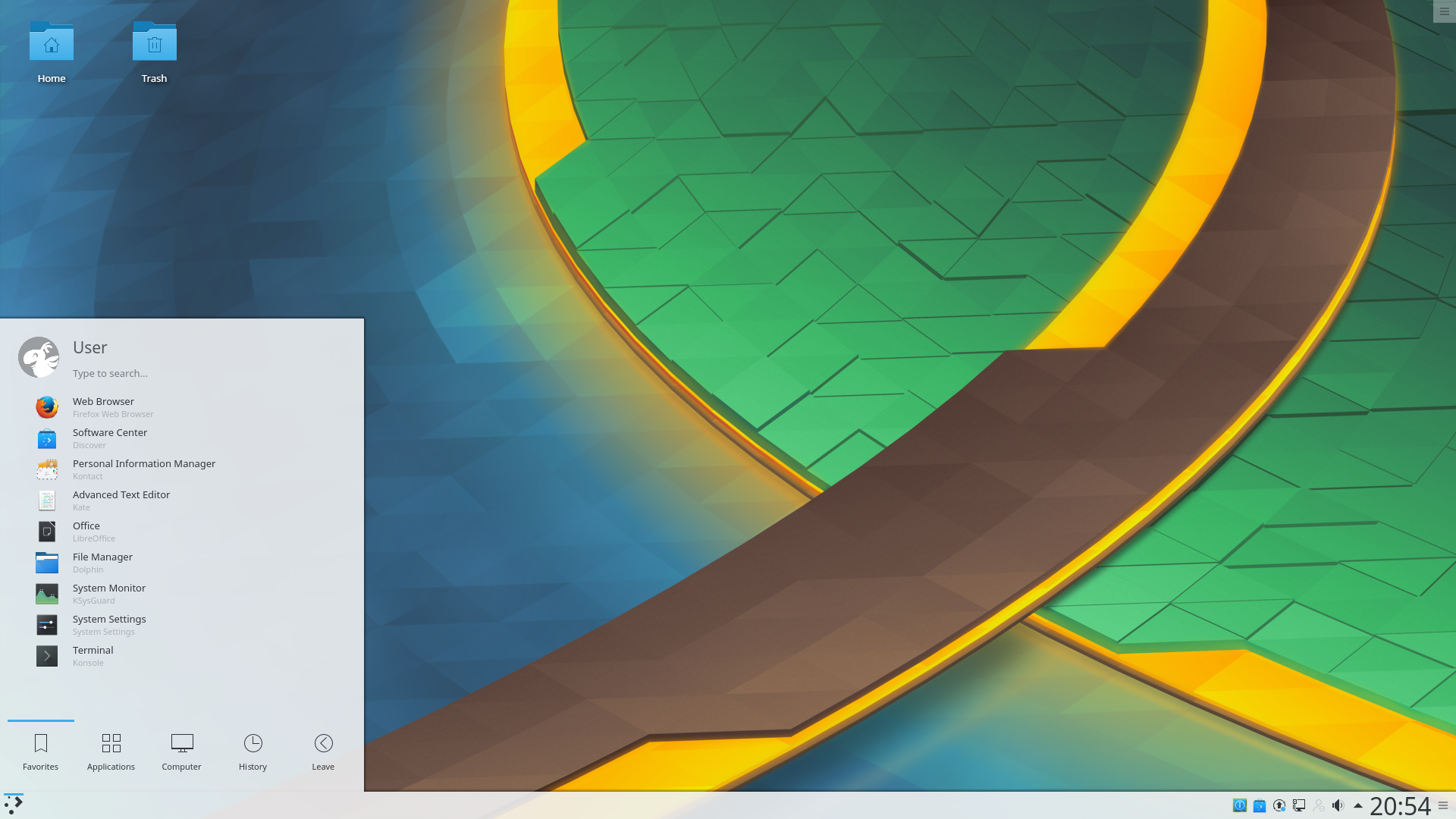 KDE Plasma desktop